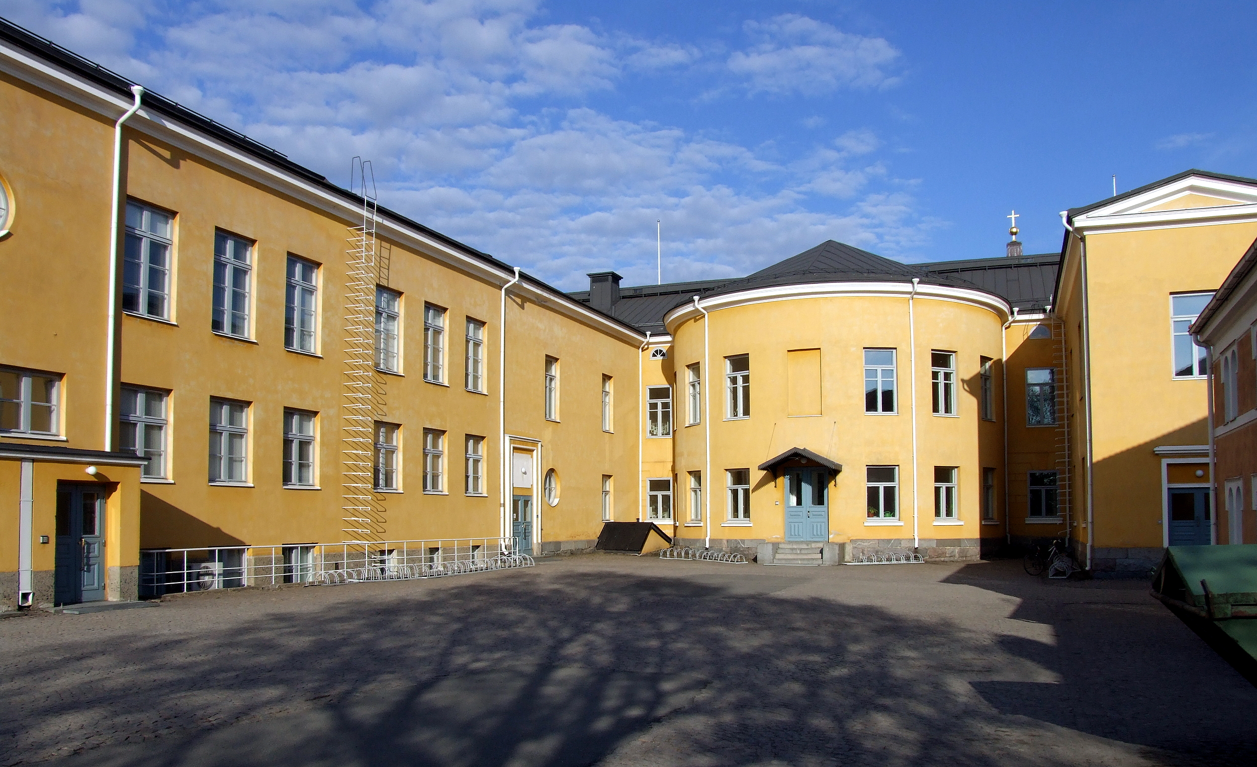 The inner court of Oulun lyseon lukio (Oulu Lyseo Upper Secondary School).